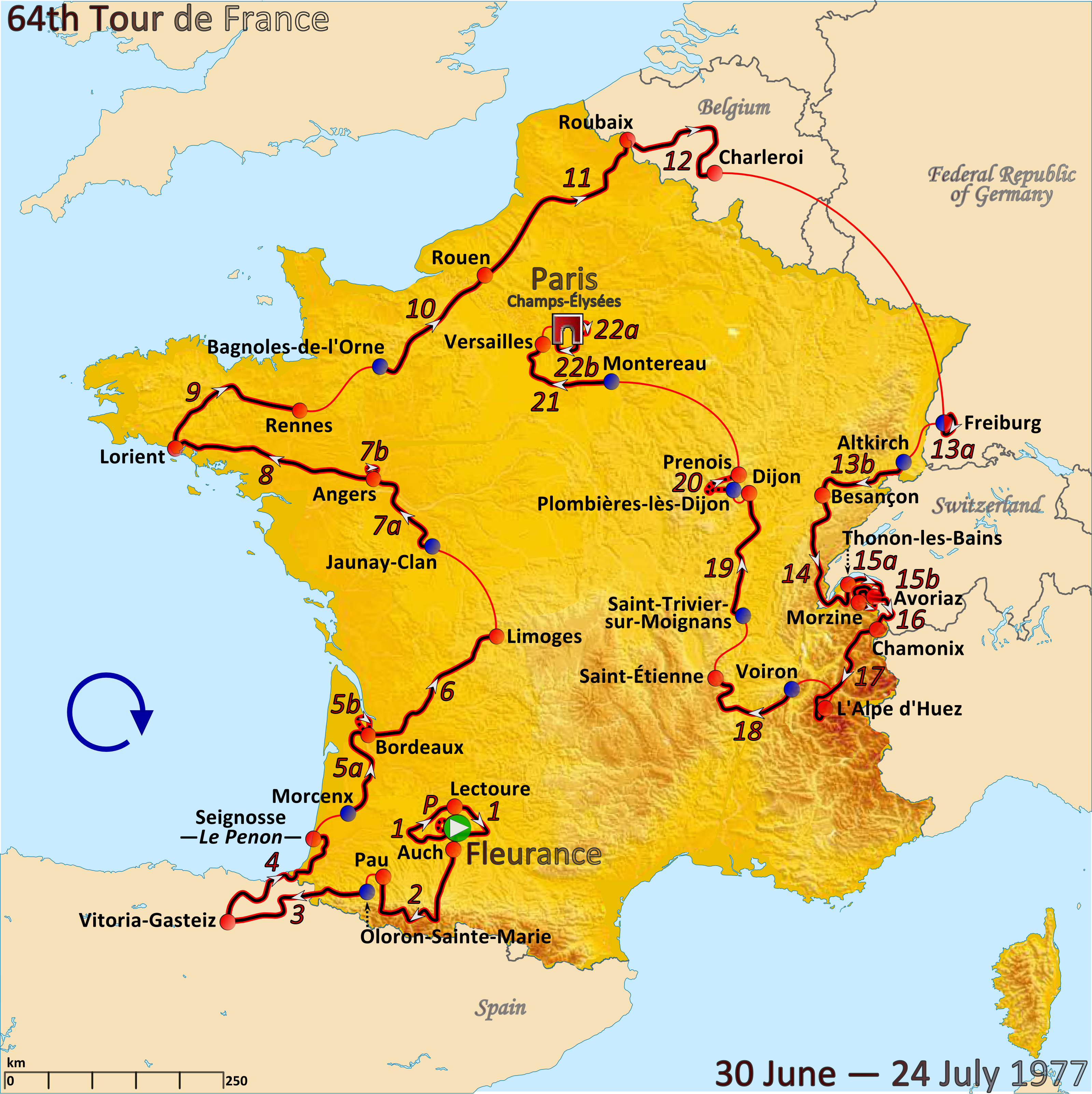 Map of the 1977 Tour de France created in Inkscape using accurate stage maps obtained from touratlas.nl.